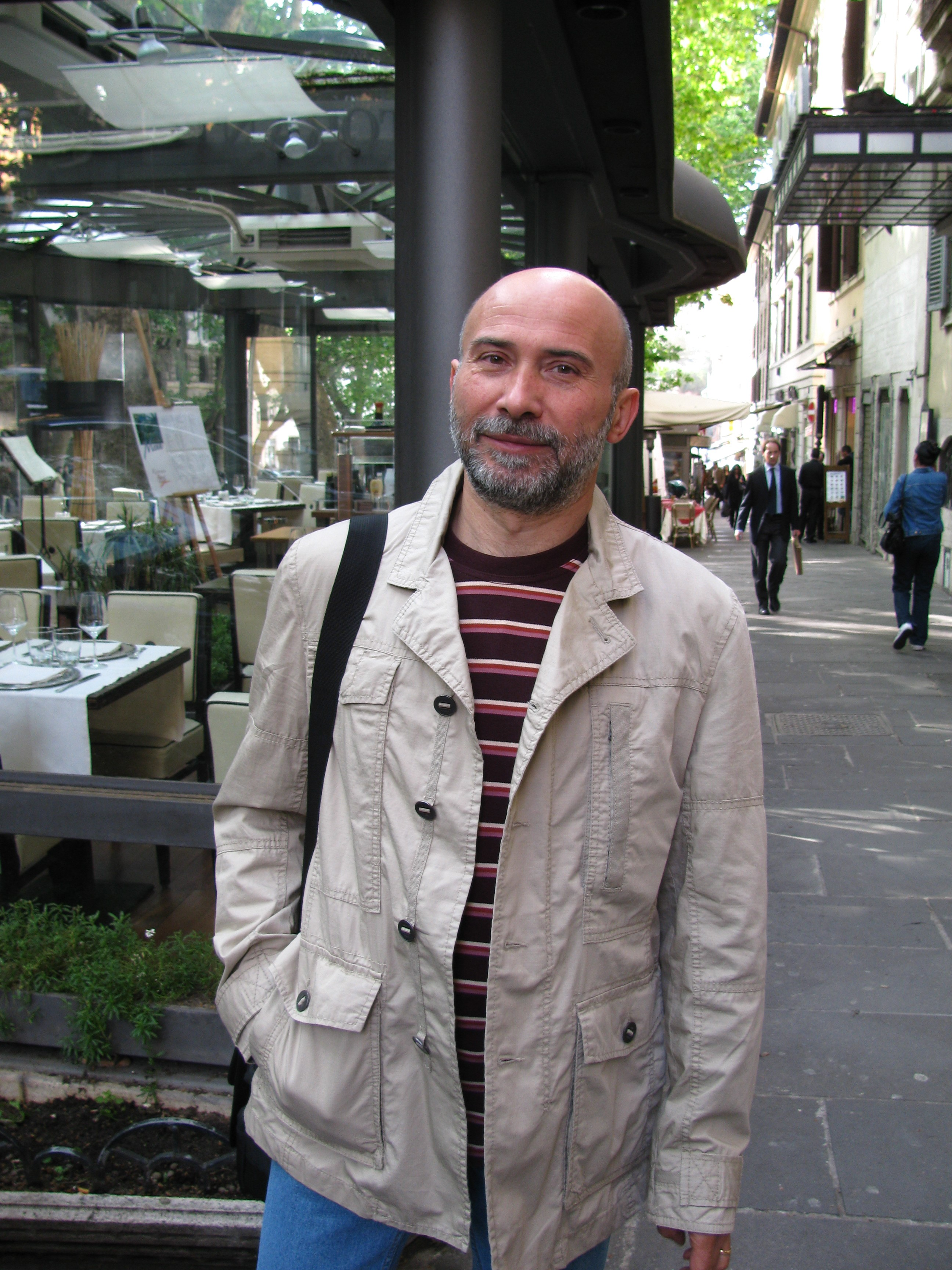 Photo of Gencho Nakev